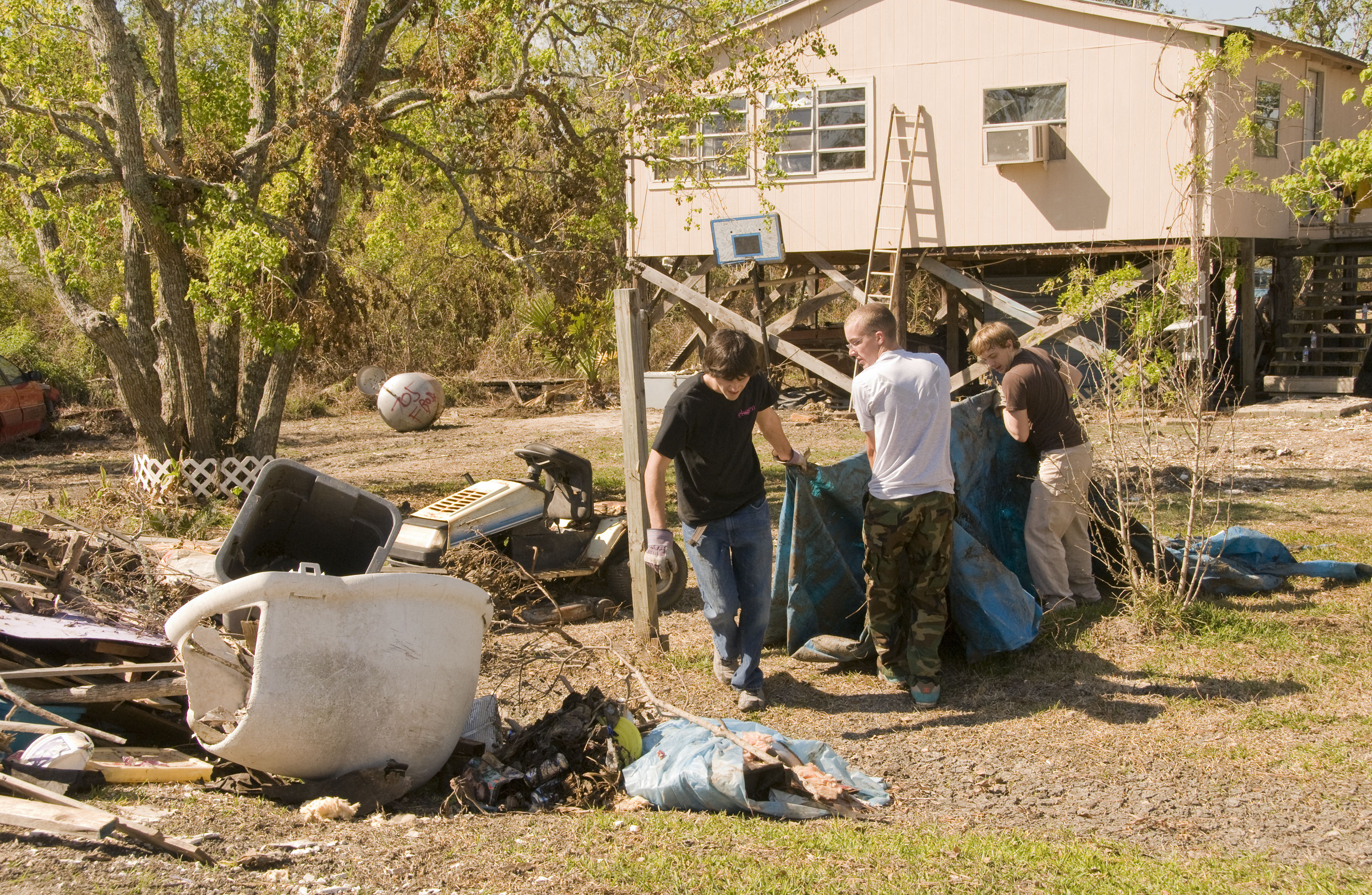 Oak Island, TX, October 25, 2008 -- A group of teenagers from a San Antonio, TX church group cleans up debris at a home in Oak Island, TX that was devastated by Hurricane Ike. Photo by Patsy Lynch/FEMA